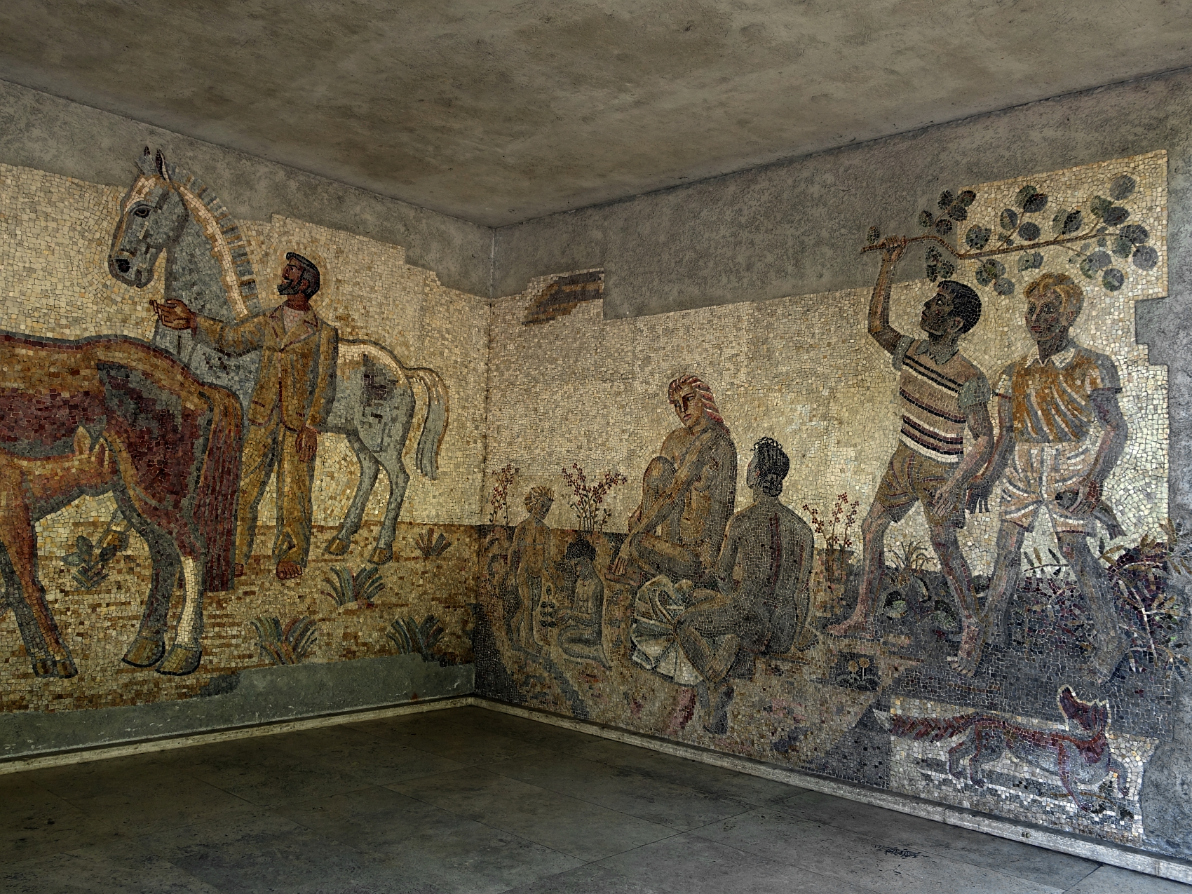 Walter Eglin (1895–1966) Mosaik, Sendung, 1942–1948 das 3,5 × 30, Eingangshalle Kollegiengebäudes der Universität Basel. Im Auftrag des Kunstkredit Basel-Stadt